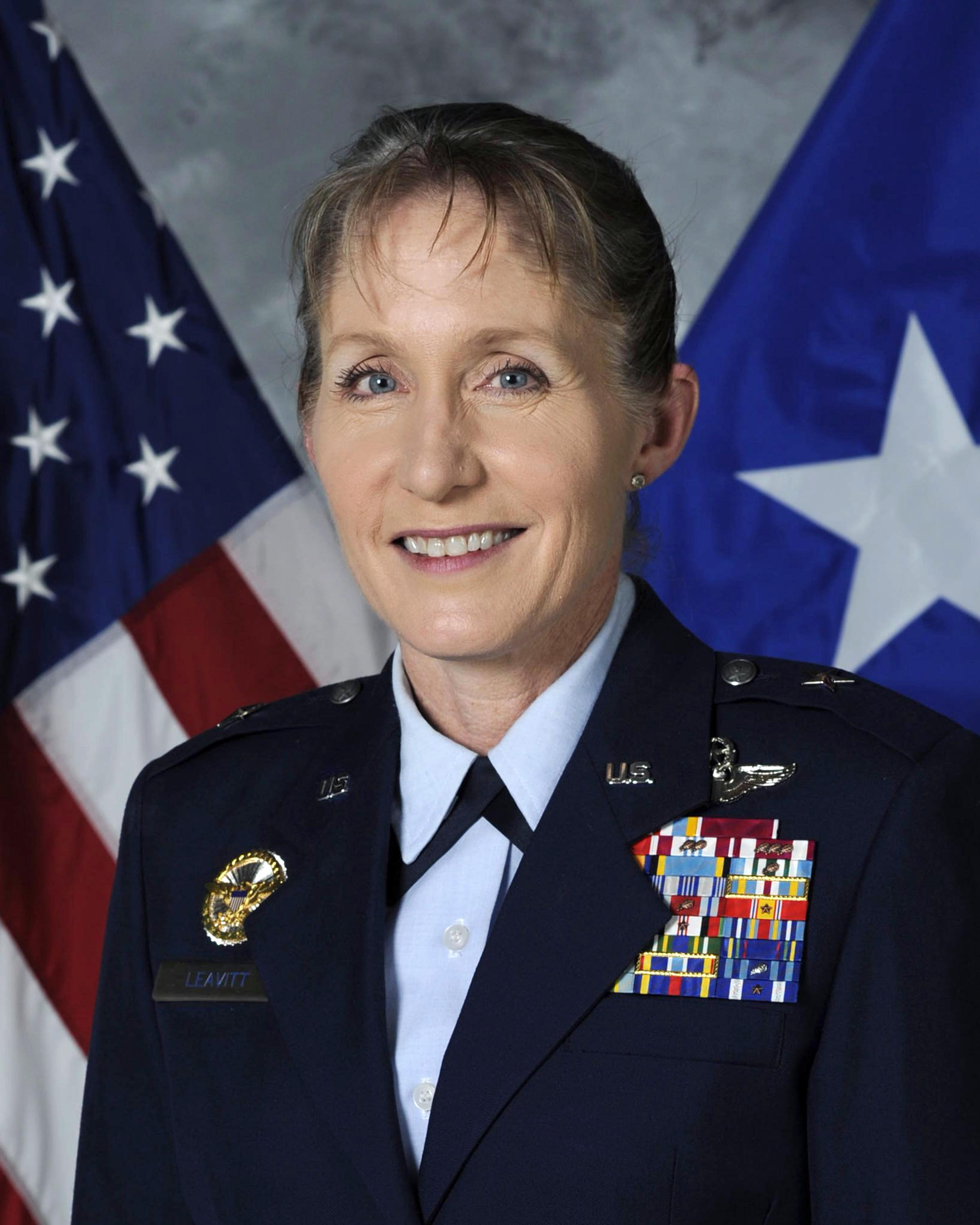 Brig. Gen. Jeannie M. Leavitt